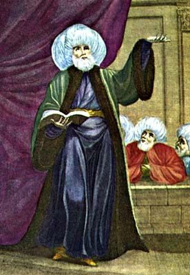 Number 20 of Charles de Ferriol's "Recueil", a collection of engravings copying Jean Baptiste Van Mour's depiction of life in the Ottoman Empire of the 18th century. The file comes from a copy owned by Eu.Finopoulos.